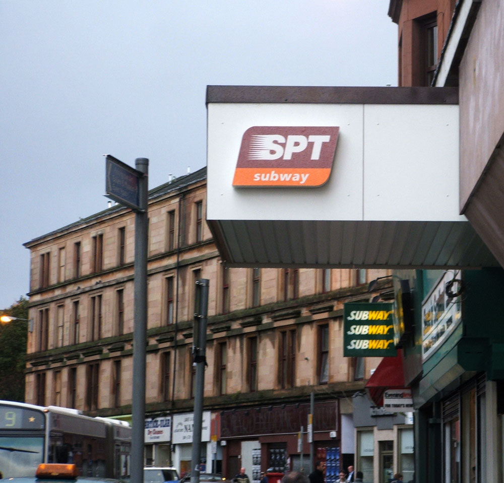 The entrance of Kelvinhall subway station, Glasgow.